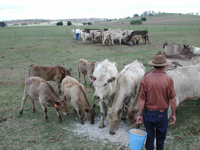 Feeding cotton seeds, in New South Wales during a green drought, following a severe shortage of rain.